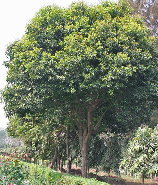 Maulsari Mimusops elengi in Kolkata, West Bengal, India.